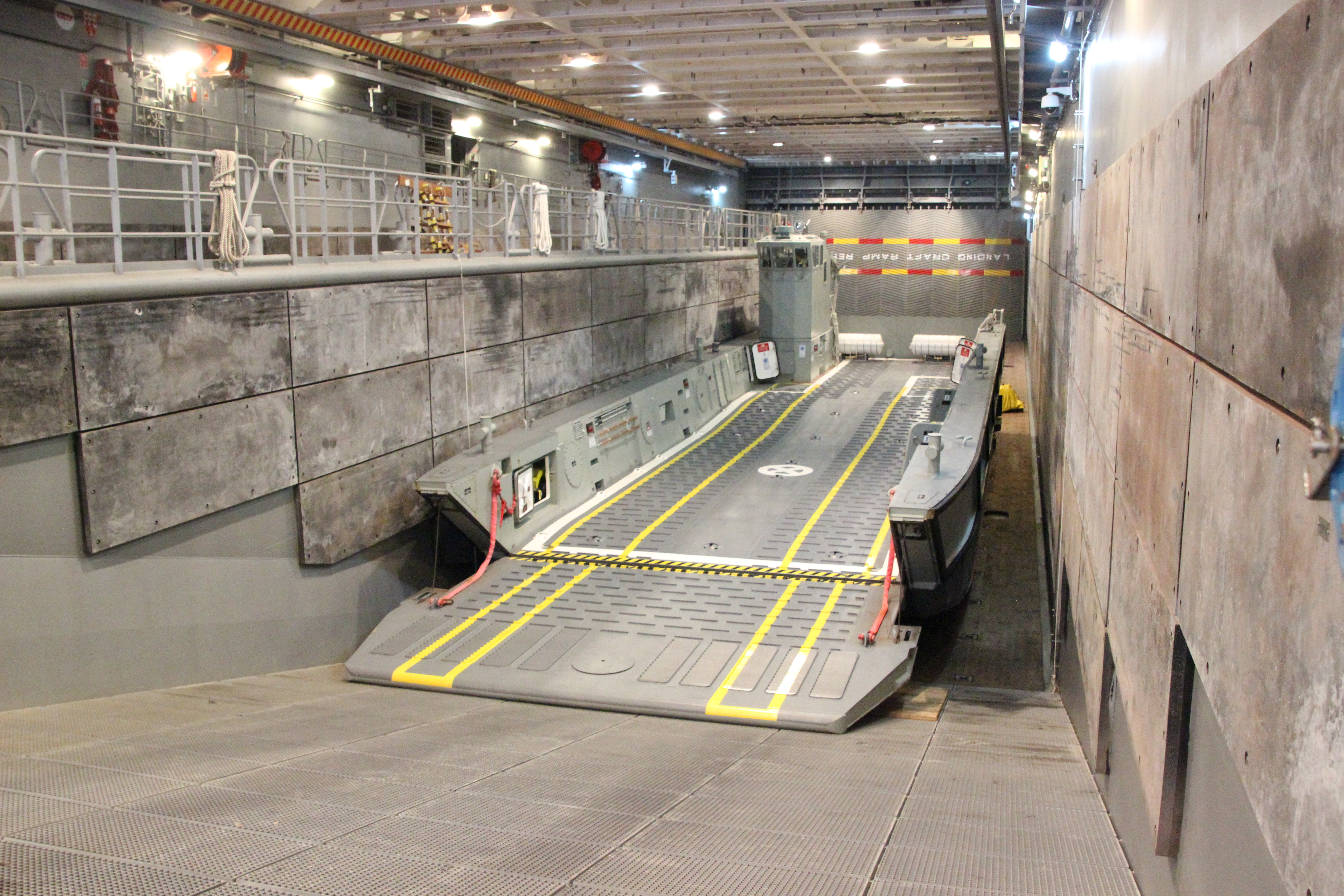 An LCM-1E landing craft on display on the well deck of HMAS Canberra while the ship was open to the public during the 2015 Anzac Day commemorations in Hobart.